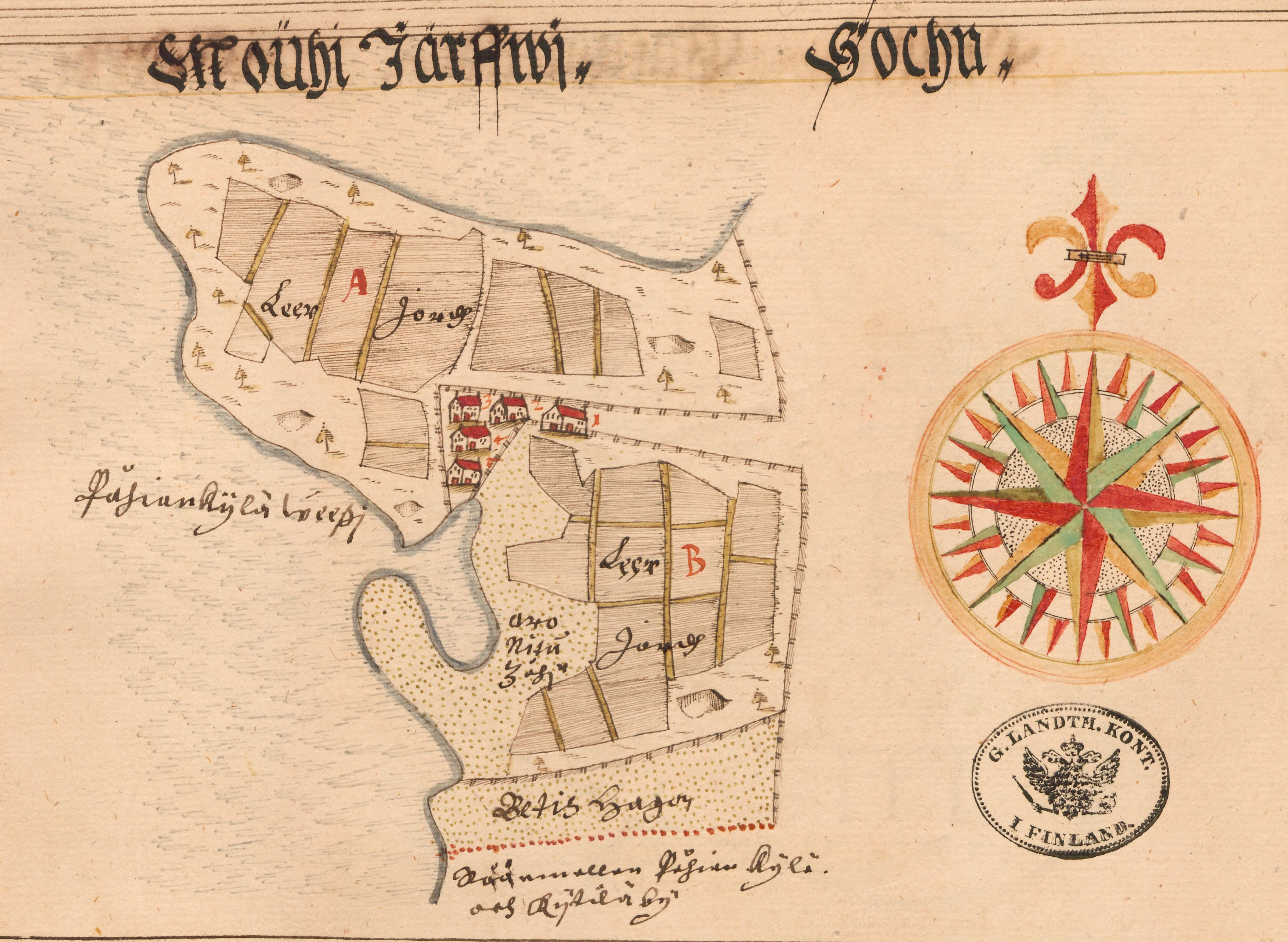 Records creator: Maanmittaushallitus, \nArchive/Fond: Maanmittaushallituksen uudistusarkisto , \nSeries: Maakirjakartat, \nUnit: MHA A 1 369-370Ã–ffwer Satagundes HÃ¤redt Mouhi JÃ¤rffwi Sochn [KortejÃ¤rvi, PohjakylÃ¤]., \nInclusive dates: 0 - 0\n